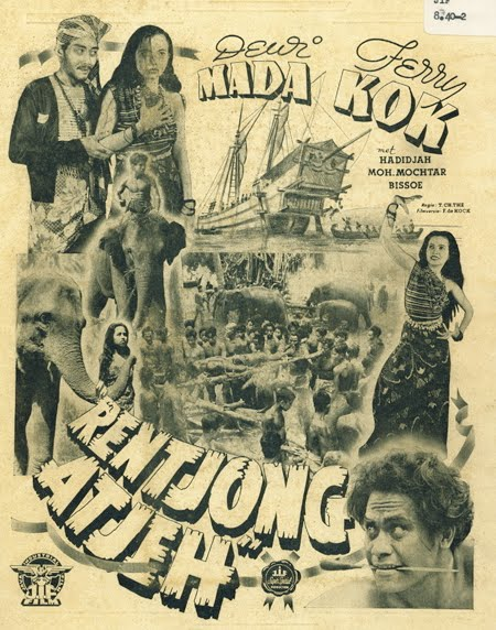 Film poster for the film Rentjong Atjeh.